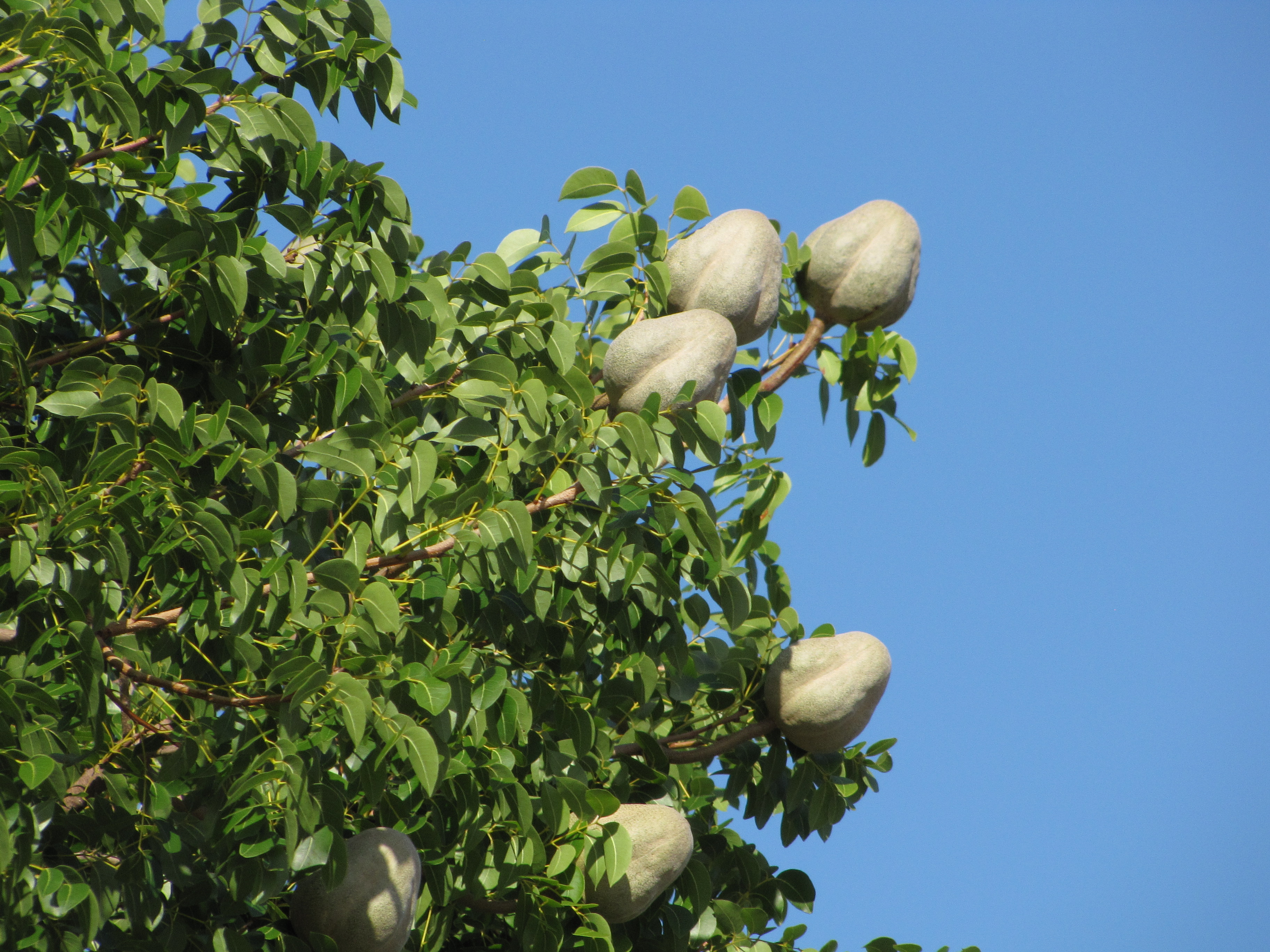 Swietenia mahagoni fruit and leaves, Holiday Inn Express, Boynton Beach, Florida (cultivated, but within native range of species)